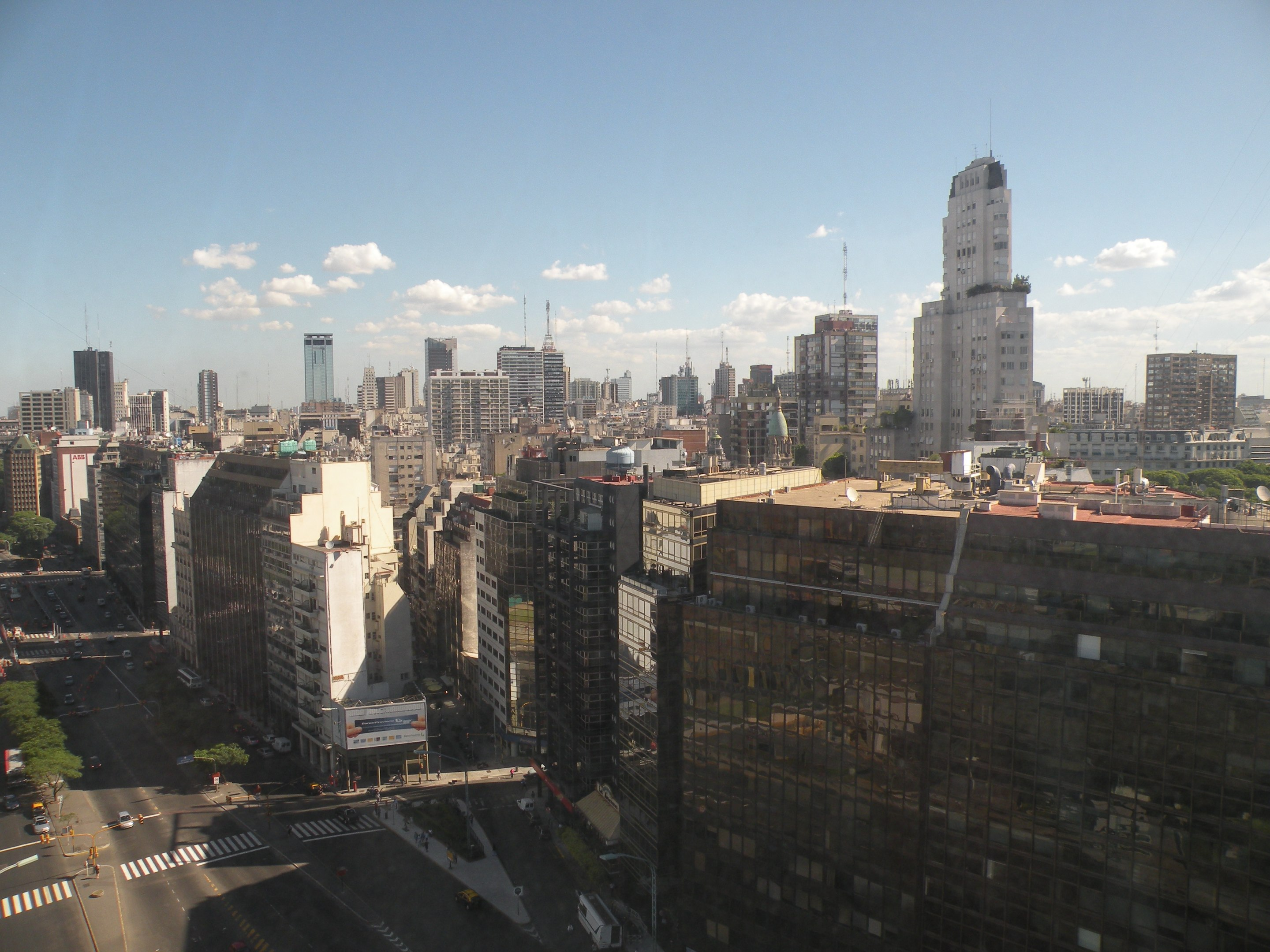 Downtown Buenos Aires, from the Sheraton Hotel.